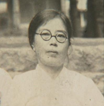 Na Hye-sok, 1936